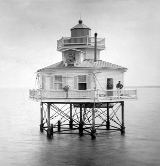 Undated United States Coast Guard photograph of Nansemond River Light (original here) cropped and converted to PNG format